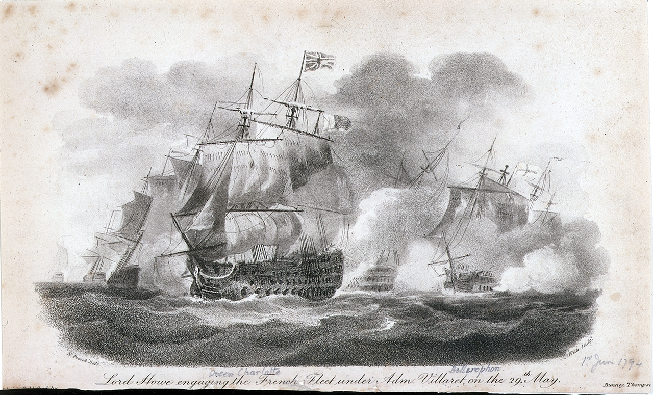 Lord Howe engaging the French Fleet under Adm Villaret on the 29th May, aquatint by Wells, after original by Nicholas Pocock (1794) published by Bunney, Thompson & Co. Vignette from Naval Chronicle: Howe's Queen Charlotte is shown on the starboard tack with double-reefed topsails and flying the Union Flag (as Commander-in-Chief) on the main, leading through the French line. She is followed by Rear-Admiral Sir Thomas Pasley's Bellerophon, raking the French to both sides.